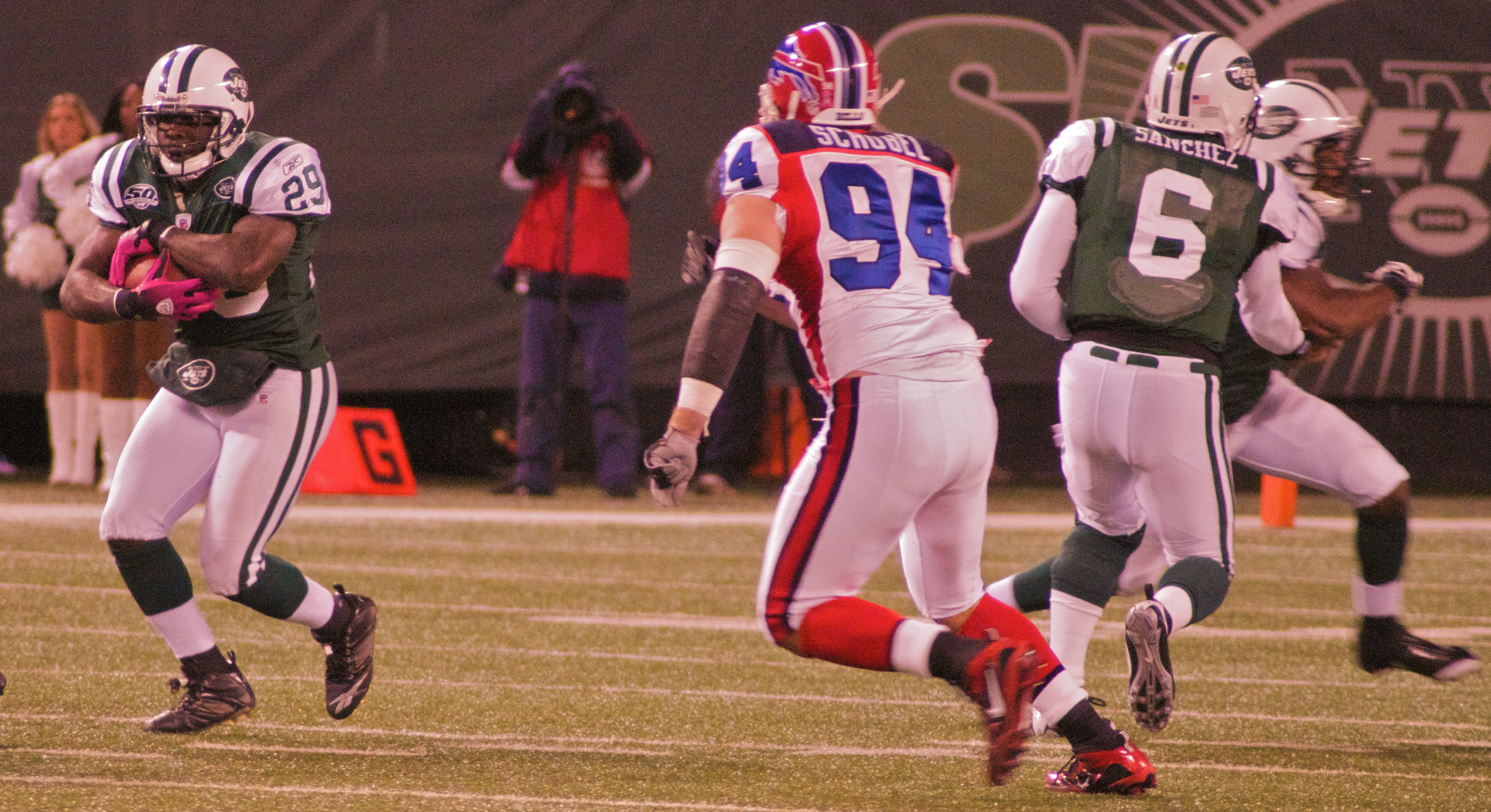 Leon Washington (29) takes a handoff from Mark Sanchez (6), Buffalo Bills vs New York Jets in October 2009.